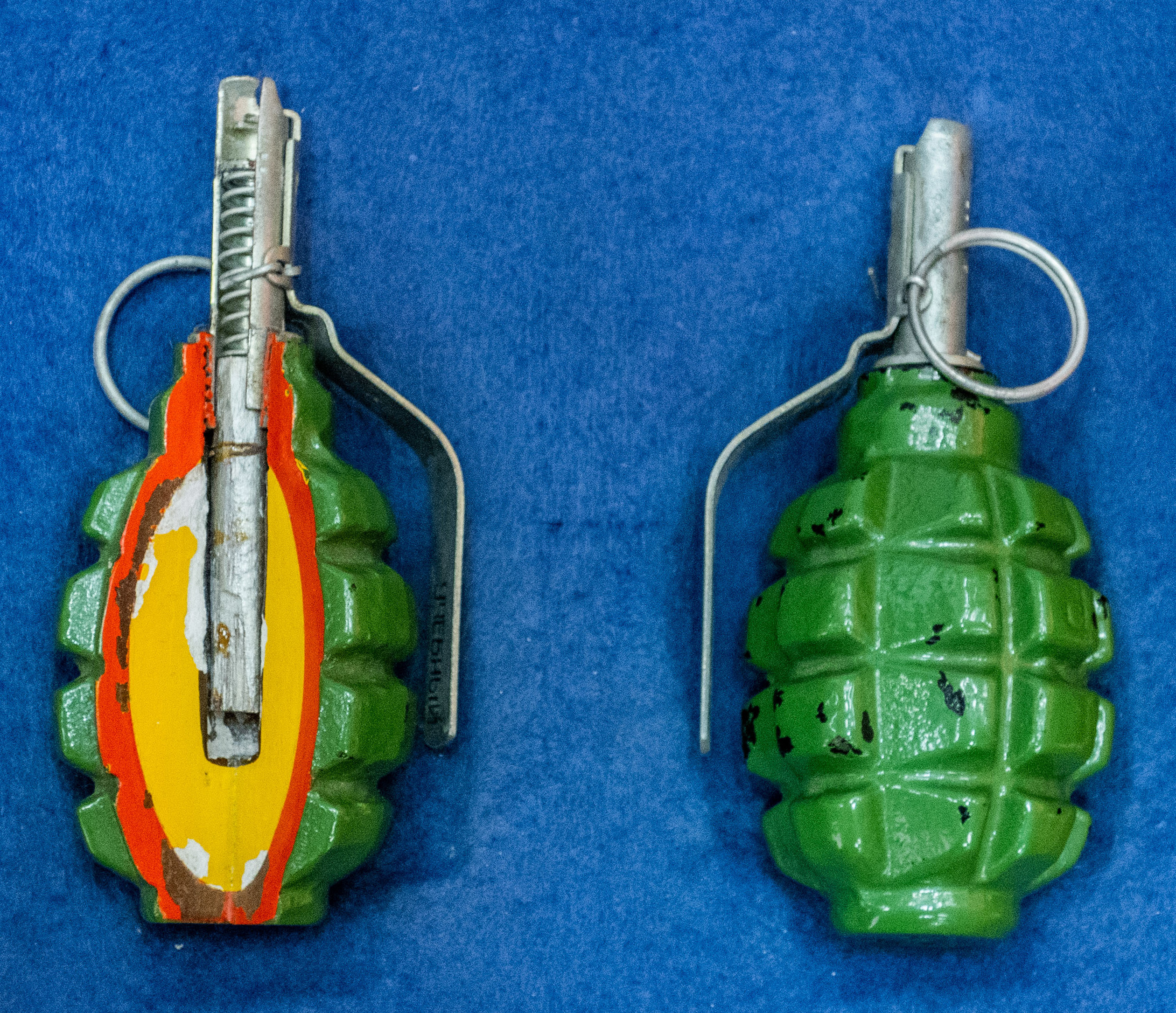 F1 (F-1) hand grenade. DOSAAF Museum, Minsk, Belarus